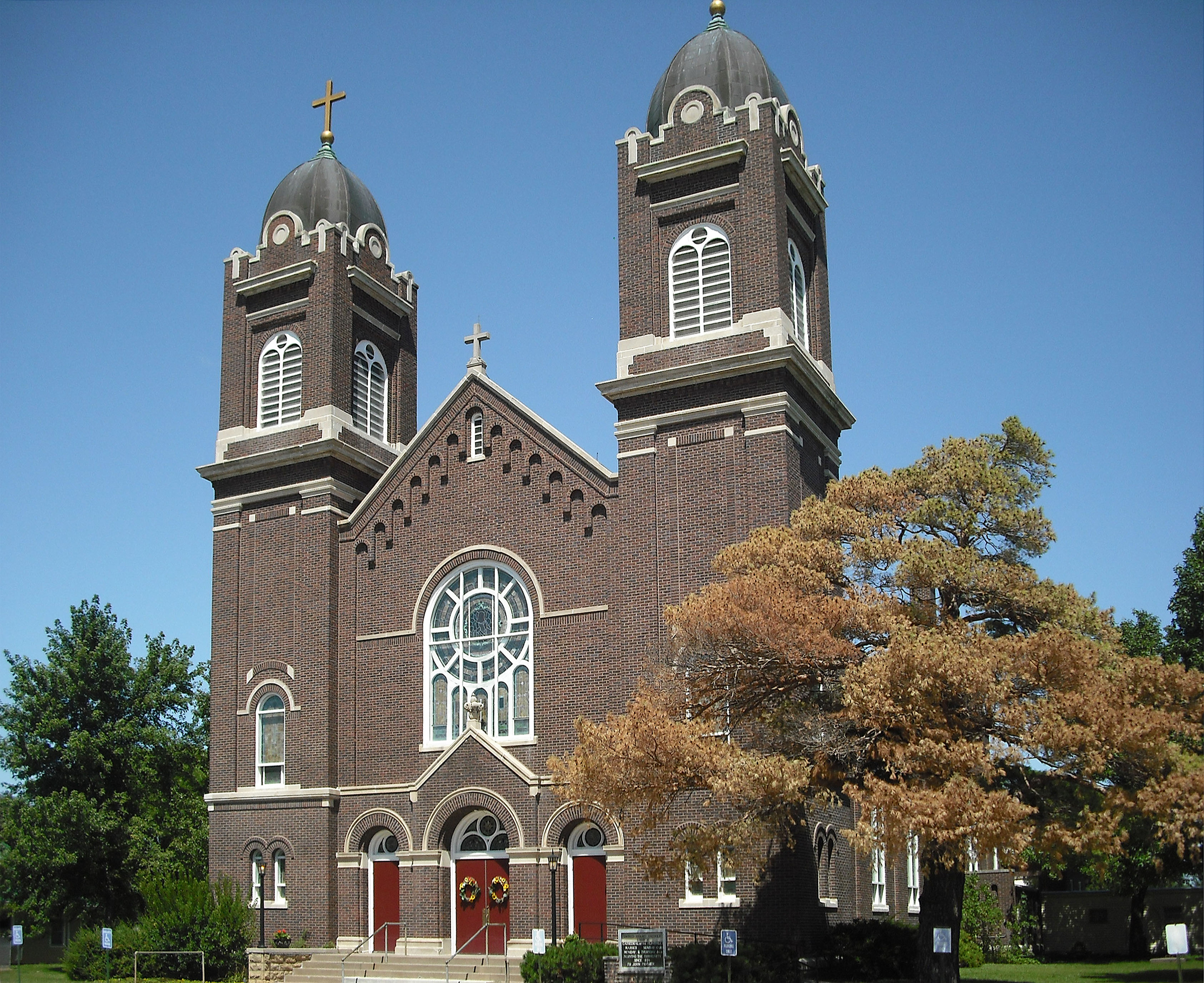 The Sacred Heart Catholic Church located in Newbury, Kansas in Wabaunsee County. Located just a mile north of Paxico.